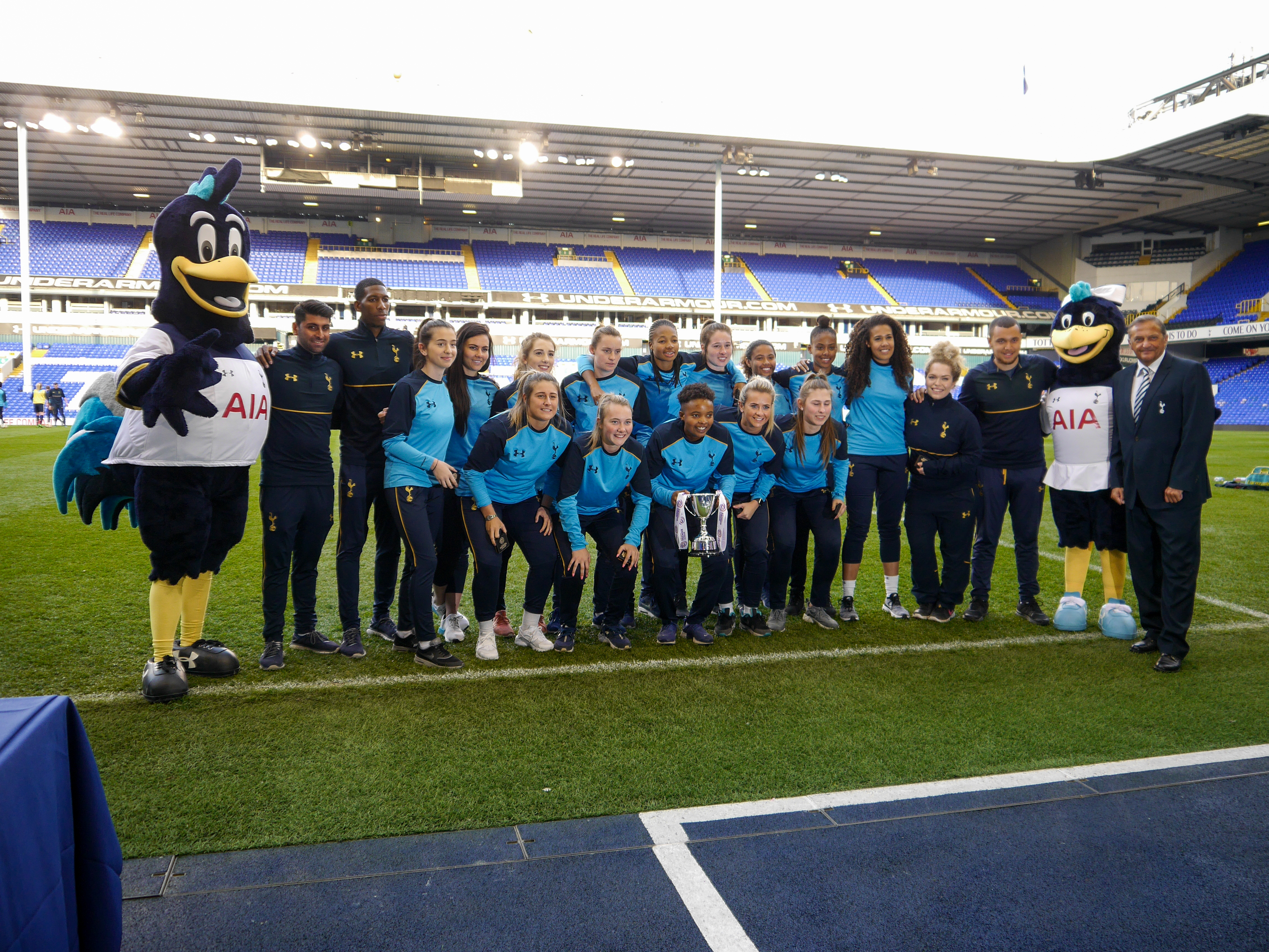 Tottenham Hotspur LFC v West Ham United LFC, 19 April 2017